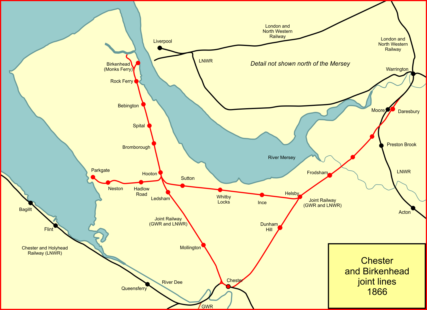 System map of the Birkenhead Joint Lines railway, Wirral, Cheshire, England in 1866 after opening of the Hooton to Helsby line